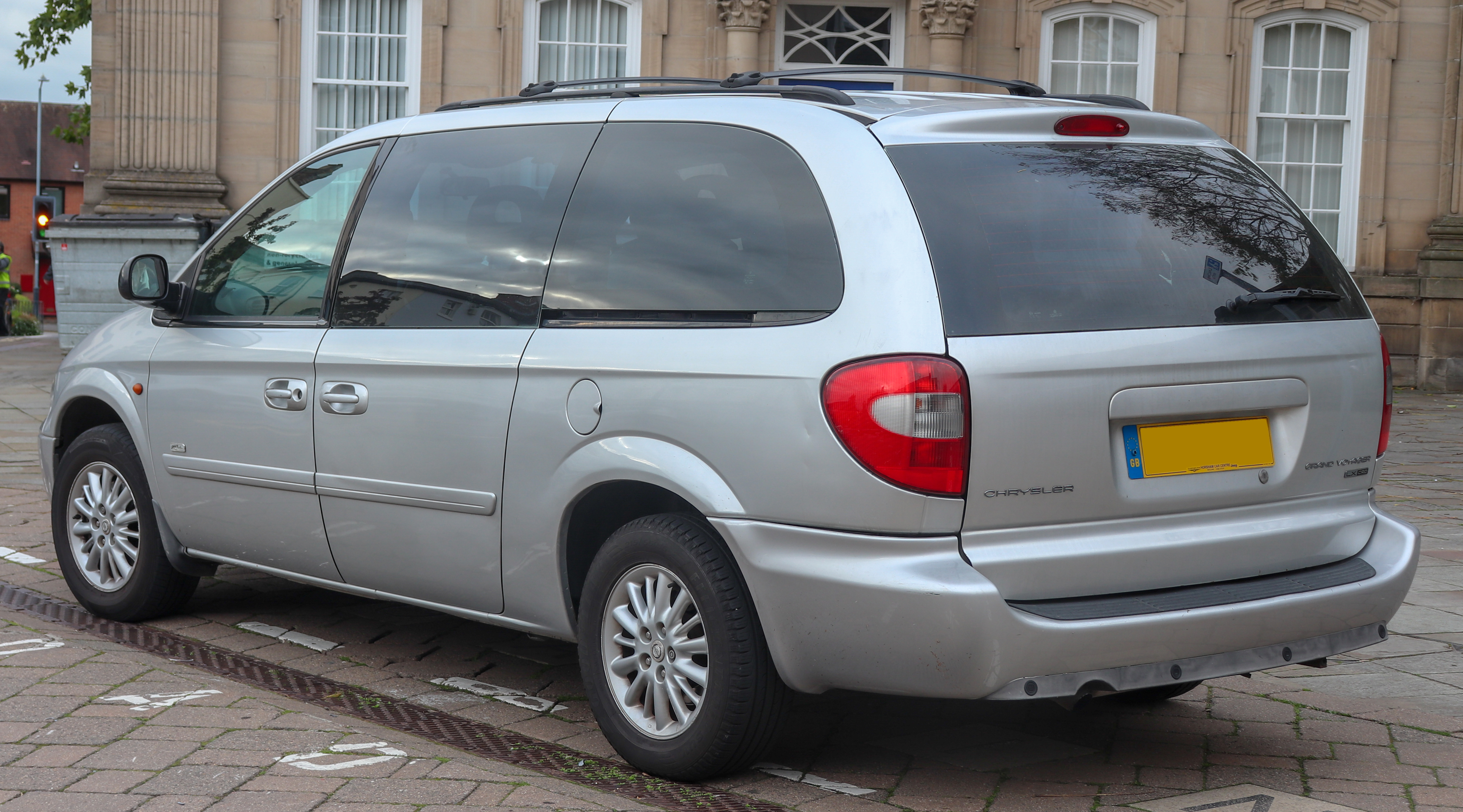 2007 Chrysler Grand Voyager Signature CRDA 2.8 Rear Taken in Warwick